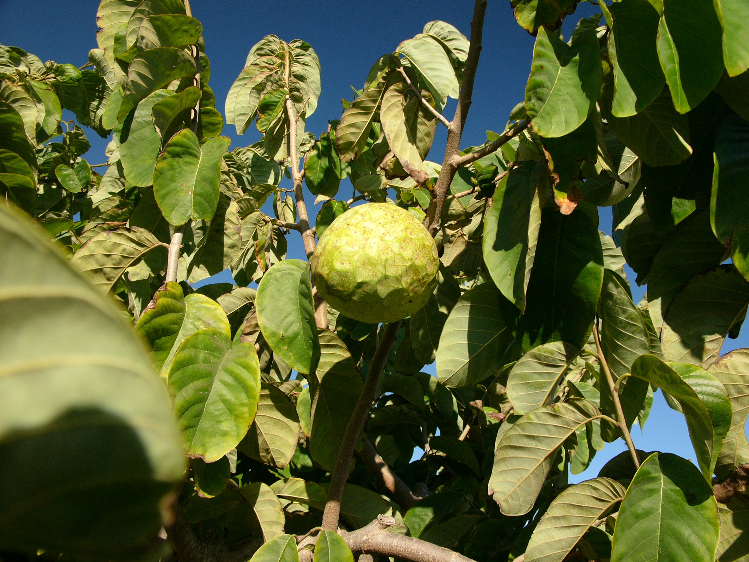 Cherimoya tree in Andalusia, Spain